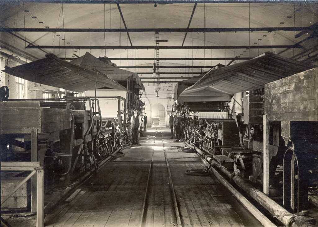 Machines 1 (on the right) and 2 (left) of Hovilanhaara paper mill in Jämsänkoski, Finland in 1910s